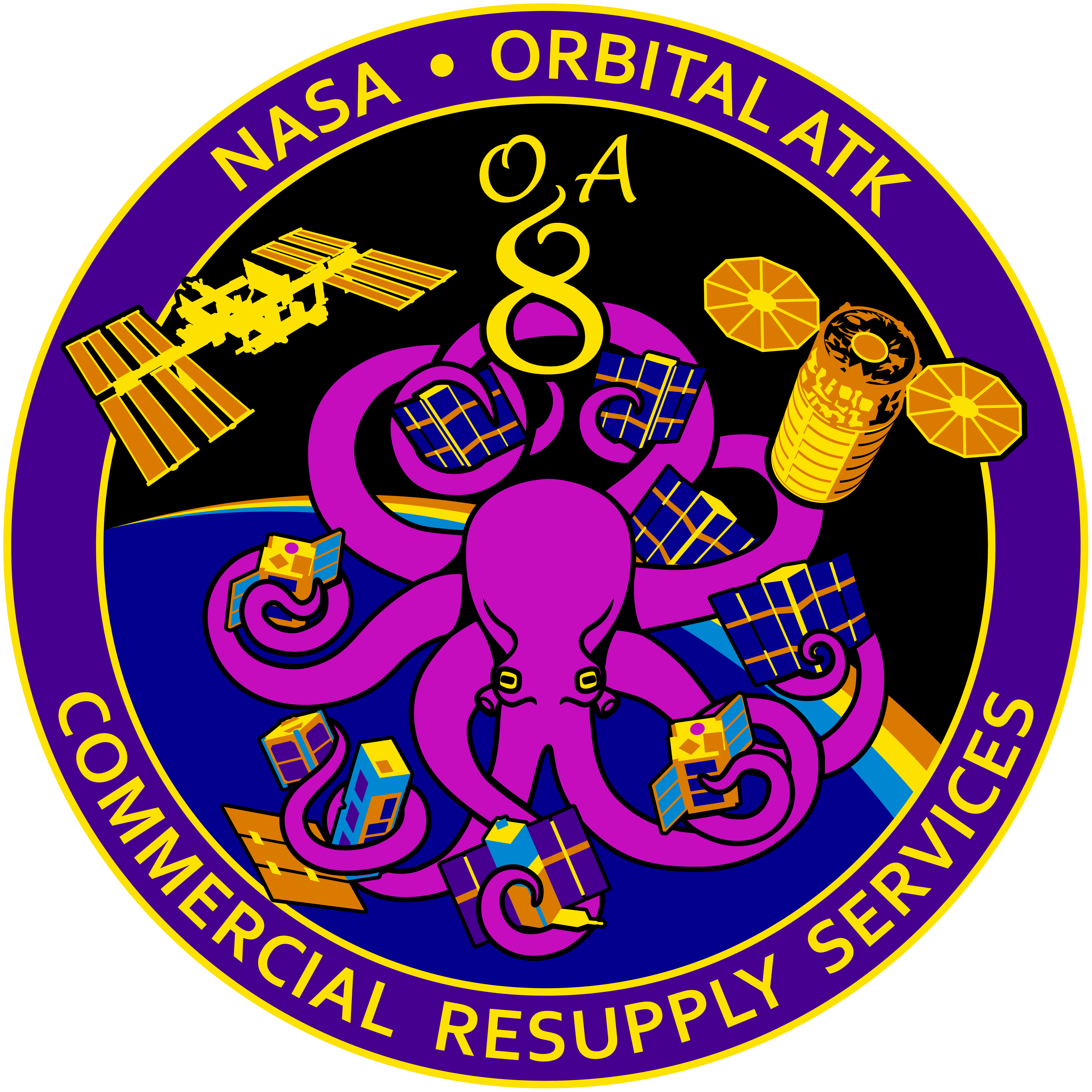 NASA insignia for Orbital ATK's OA-8 resupply flight